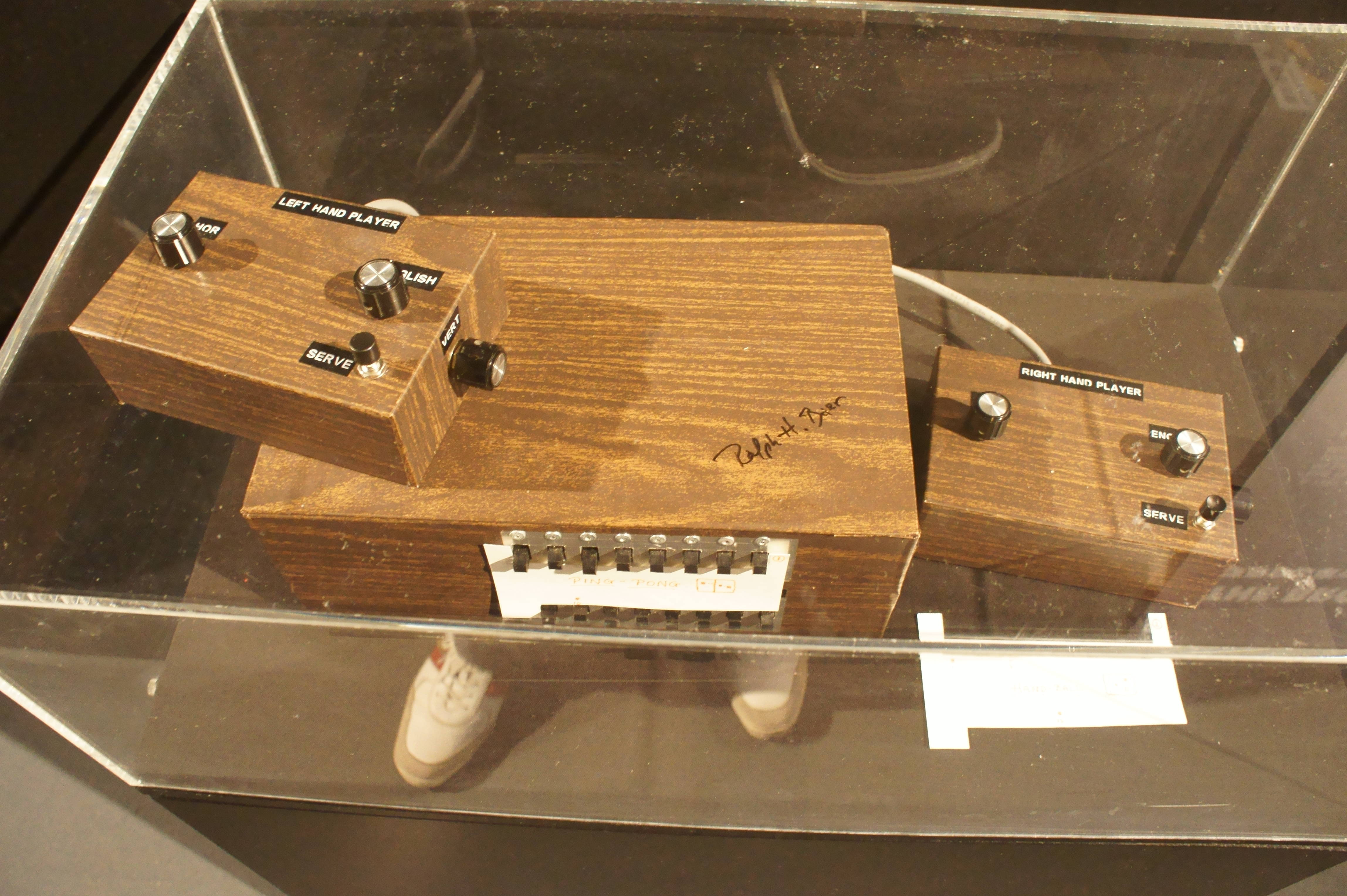 The BROWN BOX (Odyssey Prototype)